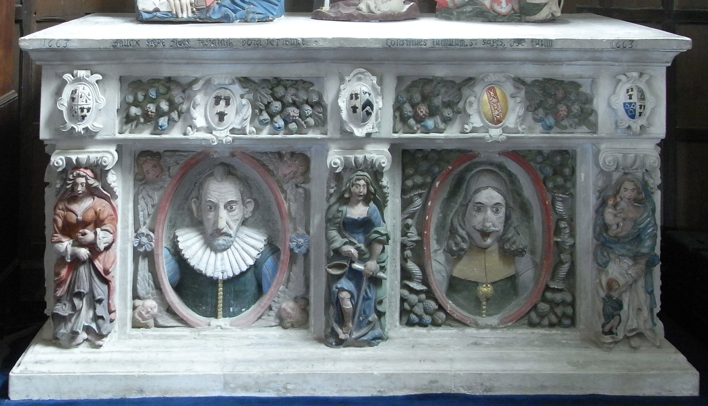 Tomb chest in Bradfield Chapel, north aisle, Uffculme Church, Devon, probably of William Walrond (1610-1669), shown at left below a cartouche with the Walrond arms, husband of Ursula Specott, sister of Humphrey Specott of Launcells in Cornwall. The arms above the figure on the right are those of Specott (Or, on a bend gules three millrinds of the first) and the ostensibly female person sculpted below, who seems to have acquired a beard, therefore appears to be his wife. Five standing female figures are shown, at the west end, a blindfolded Justice, also Faith Hope & Charity (per Pevsner). The chest tomb is complete in itself, and the half-figures presently placed on top of it belong to a former now broken up monument, probably that of the reclining Sir William Walrond (d.1689), whose effigy now occupied the window-ledge above. On the top slab is inscribed: "This lowe built chamber to each obvious (i.e. passing eye, from Latin ob + via, "in the way") eye / Seemes like a little chapell where he lye / Here in this tumbe my flesh shall rest in hope / When ere I dye this is my aime & scope". On the front edge of the top slab is written: "1663 ffalax saepe fides; testam. vota peribunt; constitues tumulum si sapis ipse tuum fulim? 1663" (faith often fails, testamentary vows perish, build a mound if you ....) Other arms quartered with Walrond are: left, Two grosing irons in saltire between four Kelway pears a bordure engrailed (Kelloway); right: Per fesse argent and azure, three chaplets counterchanged (Duke, of Otterton, the family of the wife of Humphry walrond of Ottery St Mary (d.1637), younger brother of William III Walrond (d.1627) of Bradfield). The central escutcheon, possibly erroneously repainted, should perhaps show Walrond impaling Argent, a chevron between three lambs sable (Sydenham, the family of William Walrond's mother) At present it shows Argent, a chevron between three birds sable